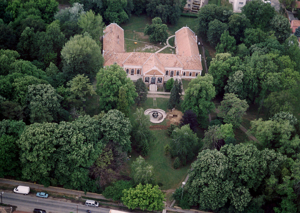 Bonyhád, Perczel mansion, now library